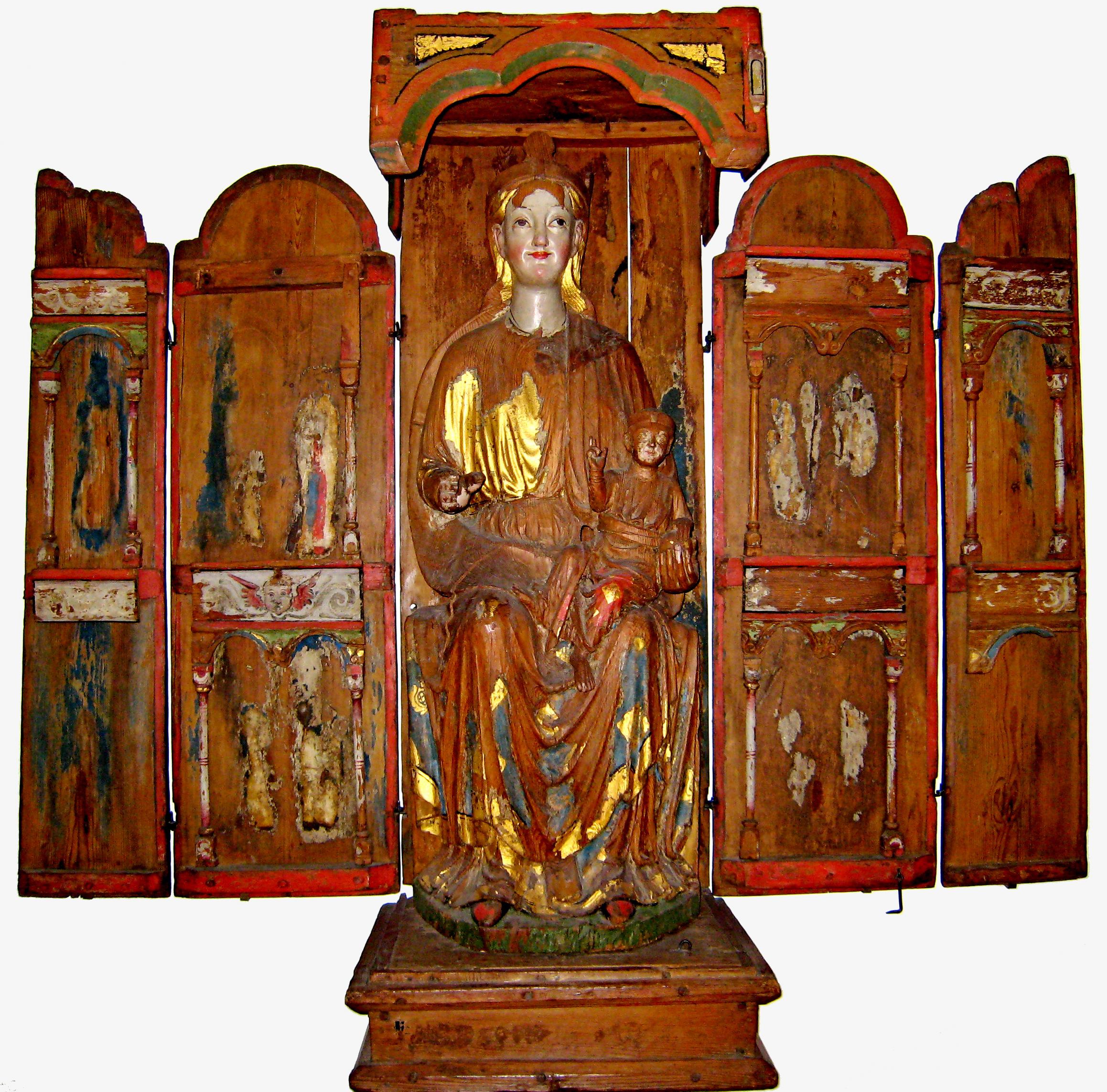 3-piece winged retable with virgin mary and supposedly scenes from her life. Colouring probably not original. pine wood, c. 1275-1300, Iceland.